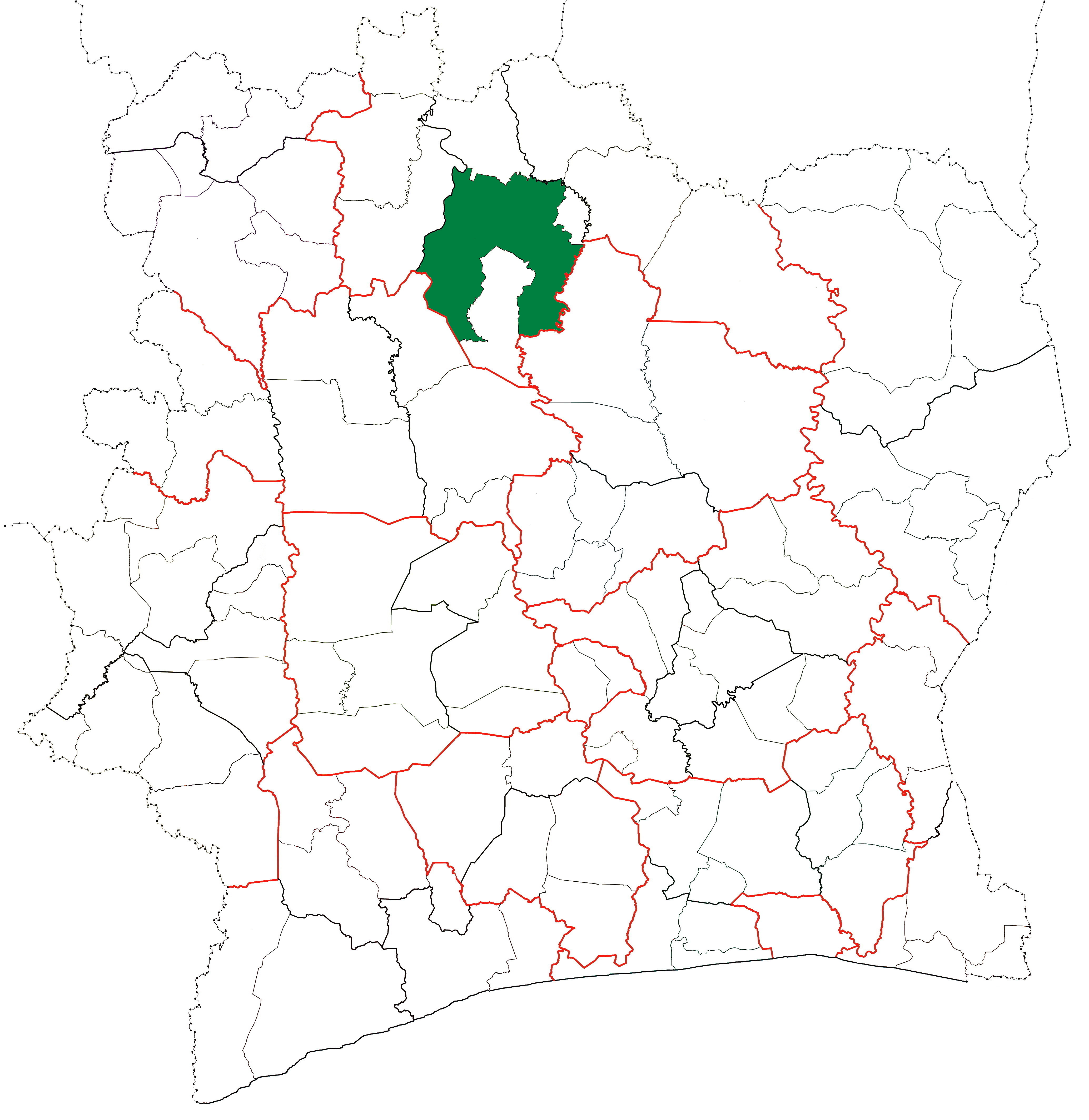 Locator map for Korhogo Department in Côte d'Ivoire.